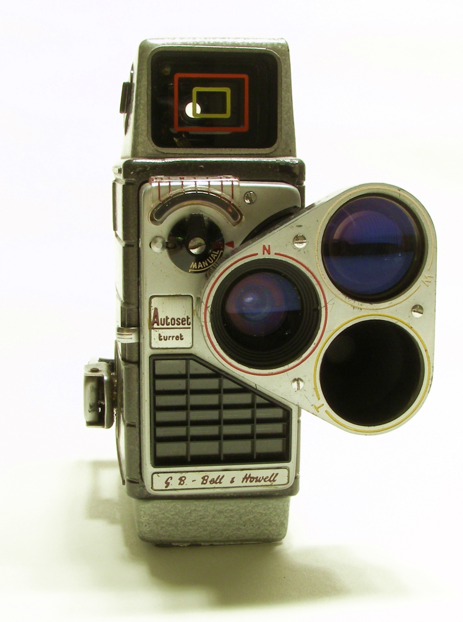 8mm cinecamera distributed by G.B-Bell & Howell in Great Britain. This model is identical to the the Bell & Howell Electric Eye Model 393 E "Perpetua" produced in the United States in 1959. G.B-Bell & Howell was a British company — a subsidiary of Gaumont British that distributed or, in some cases manufactred cine cameras and projectors under licence from Bell & Howell in the 1950s.